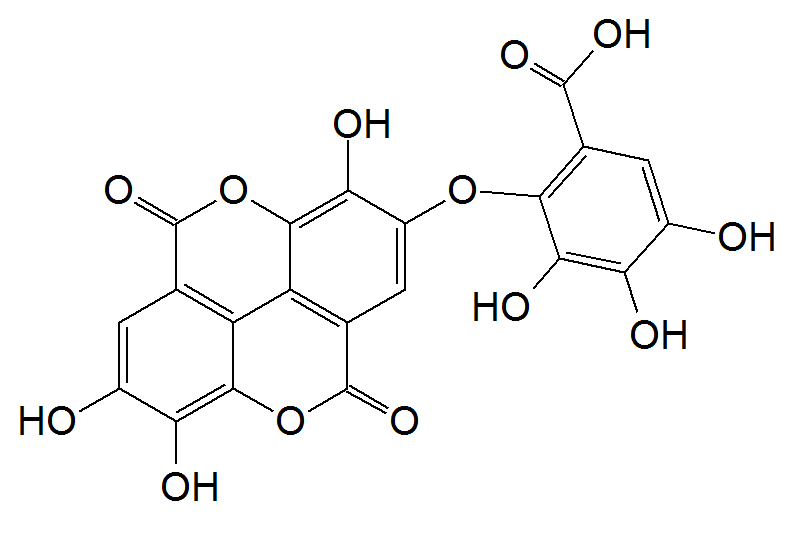 Chemical structure of valoneic acid dilactone